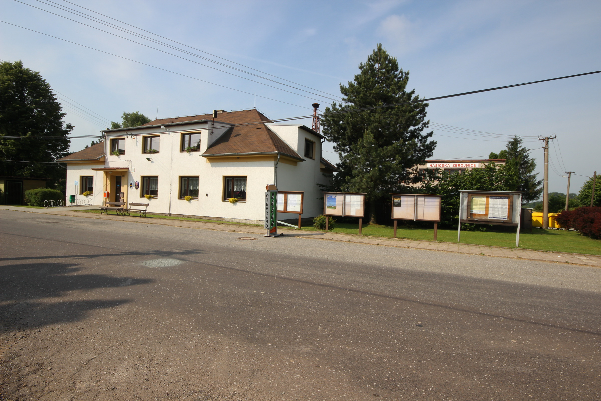 Provodov - Šonov, Šonov u Nového Města nad Metují, the Municipal office and the fire station. This photograph was taken with a DSLR from WMCZ's Camera grant.